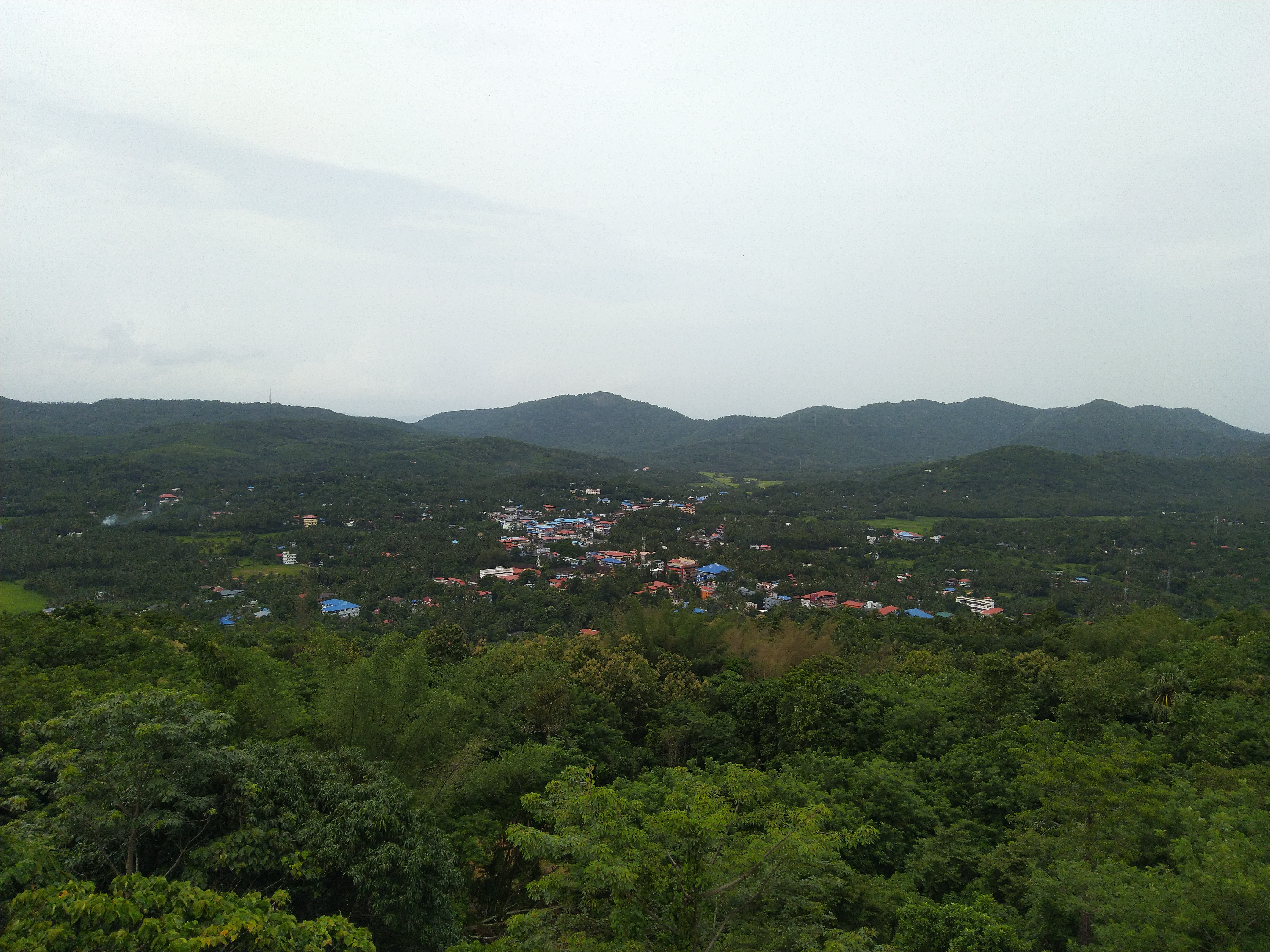 This is an aerial view of Wadakkanchery from the top of Challikunne.